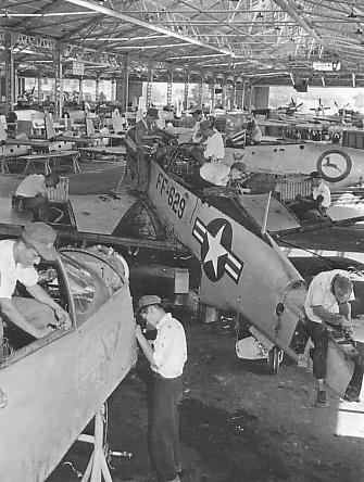 Korean War special procurement